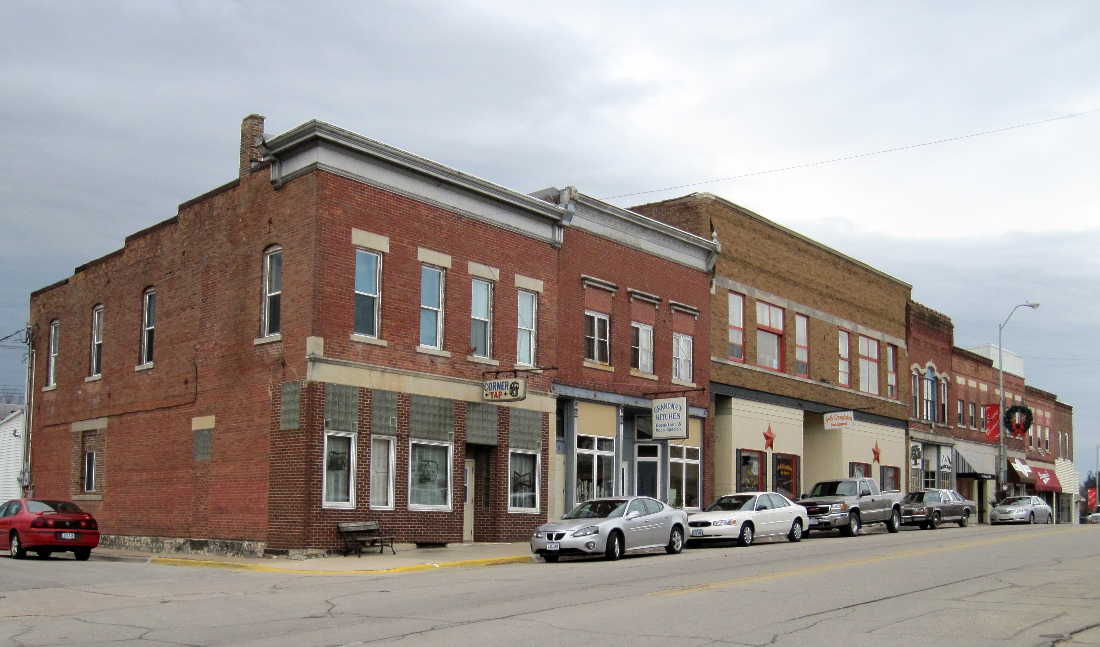 Cascade Bill Whittaker (talk) 15:30, 21 November 2009 (UTC)